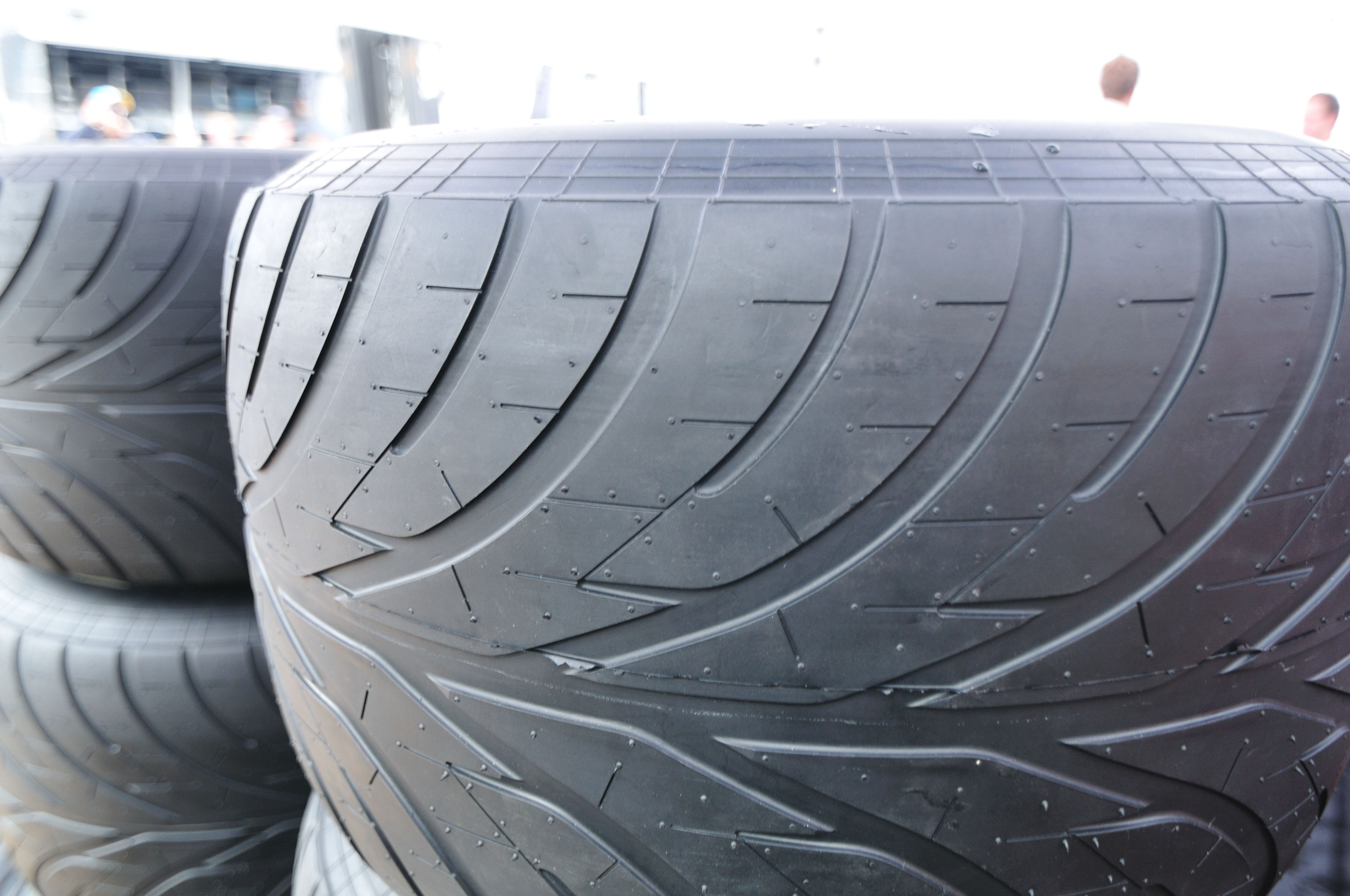 Intermediate tyres for Formula One cars, produced by Bridgestone for the 2010 Canadian Grand Prix. Intermediate tyres are designed for use in light rain conditions and wet tracks, for heavy rain and standing water Extreme wet tyres are used.